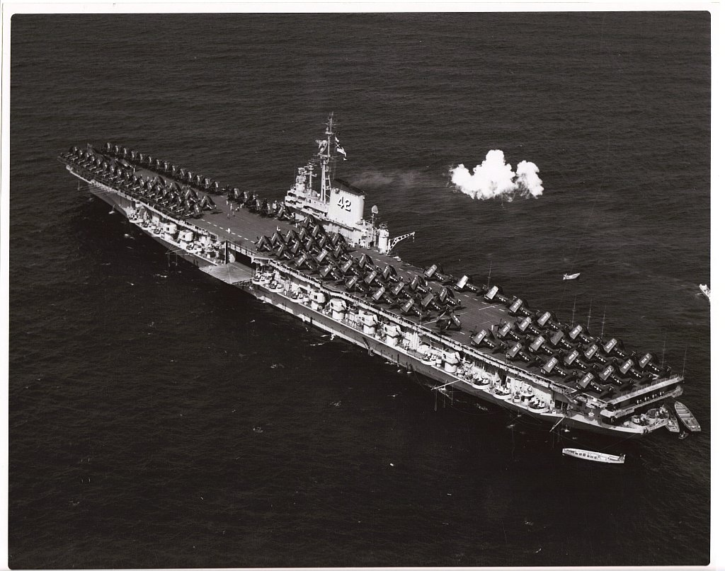 The U.S. Navy aircraft carrier USS Franklin D. Roosevelt (CVB-42) at anchor. Franklin D. Roosevelt, with assigned Carrier Air Group 4 (CVG-4), was deployed to the Mediterranean Sea from 13 September 1948 to 23 January 1949.